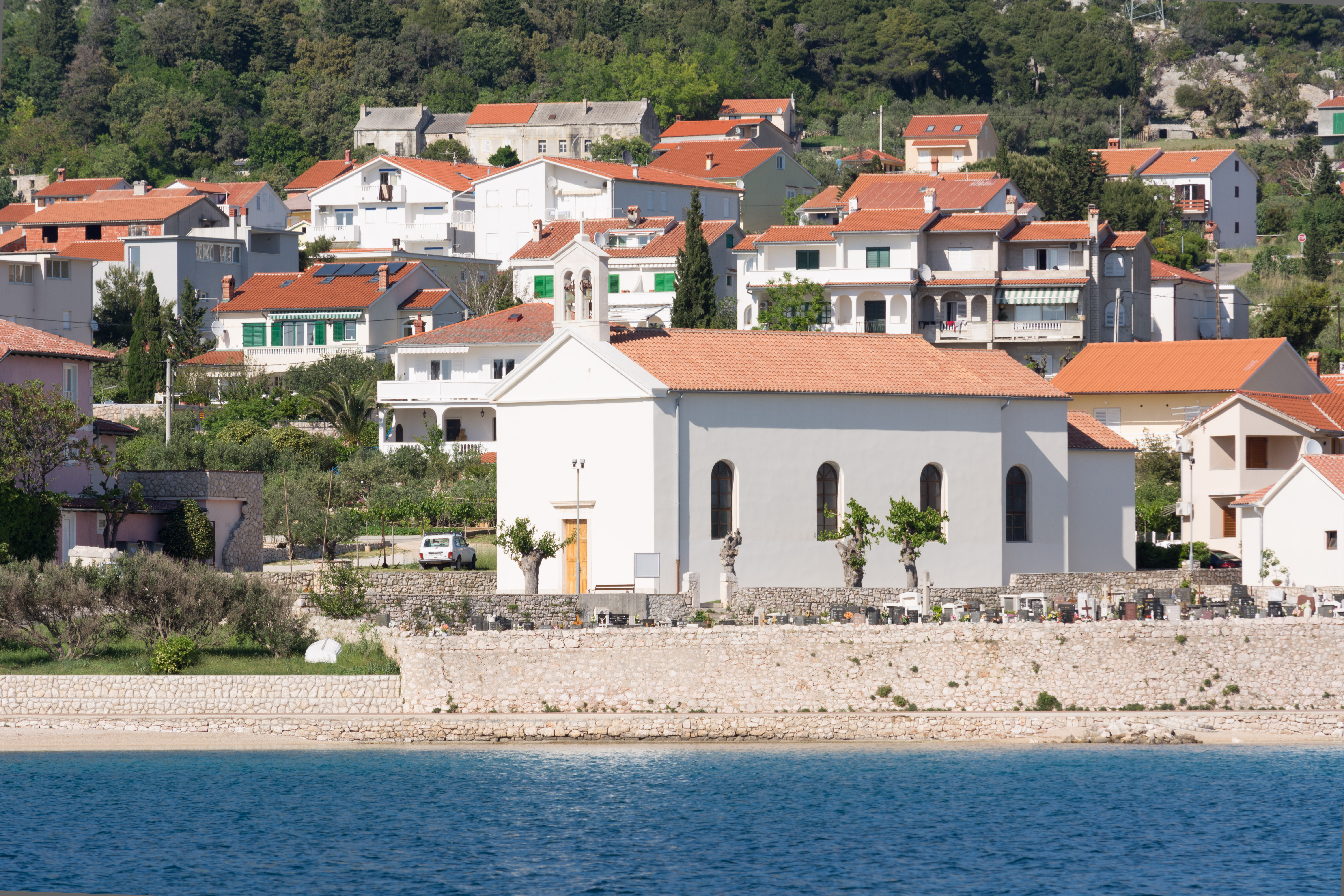 The parish church of Barbat (Rab) was erected in 1859.